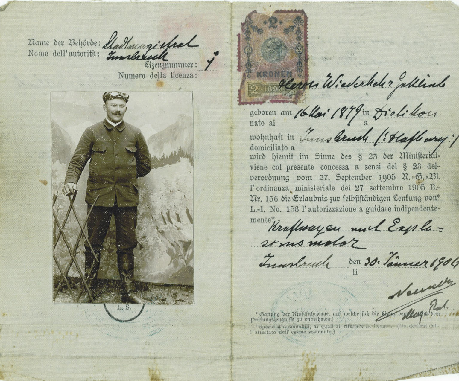 Drivers License No 1, issued by Stadtmagistrat Innsbruck to Gottlieb Wiederkehr, Swiss citizen, on January 30, 1906